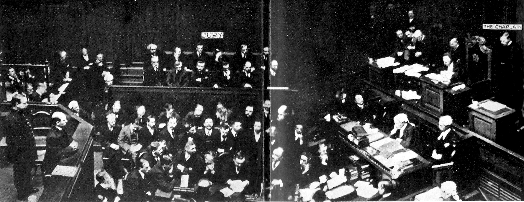 The poisoner Frederick Seddon being sentenced to death in 1912. He was executed on 18 April that year. This is one of the few known photographs of the death sentence being passed in an English court (see page 122 of 'Crime and Detection' by Julian Symons (Studio Vista 1966) which shows an image of Mr Justice Avory with a black cap clearly on his head passing sentence on chauffeur Thomas Alloway in 1922.)